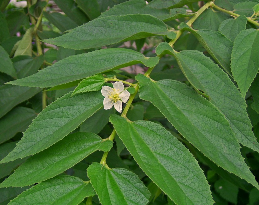 Muntingia calabura leaf and flower, from Darmaga, Bogor, West Java, Indonesia